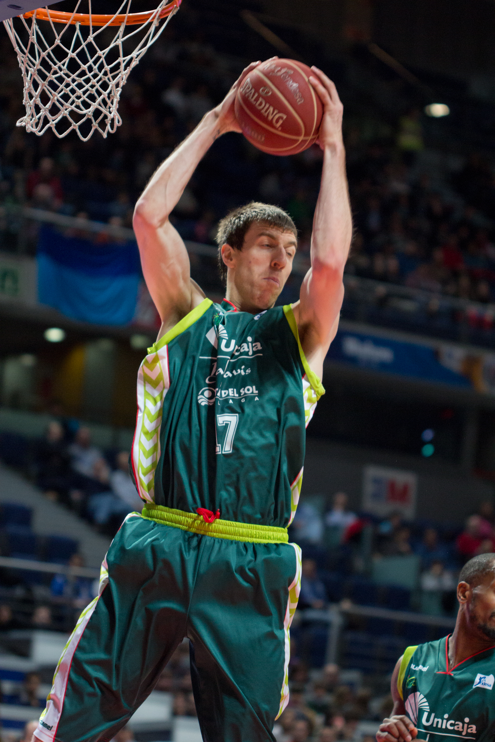 Fran Vázquez. Game Estudiantes vs Unicaja Málaga.